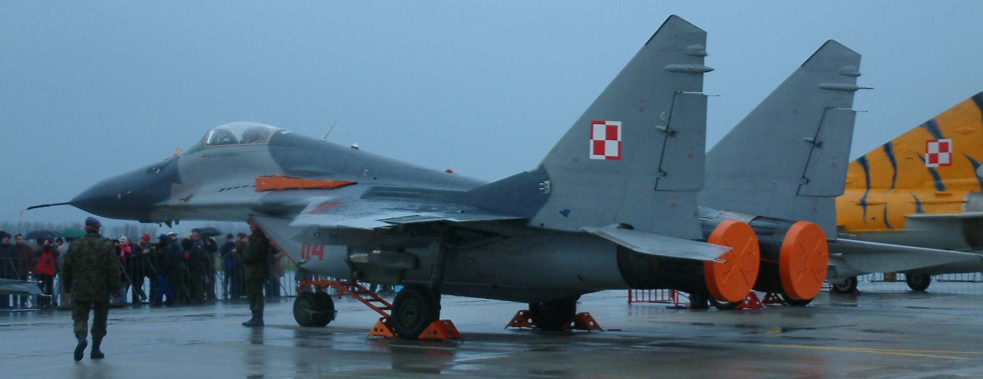 MiG-29A #114 of Polish Air Force, 31st. Air Base Poznań-Krzesiny